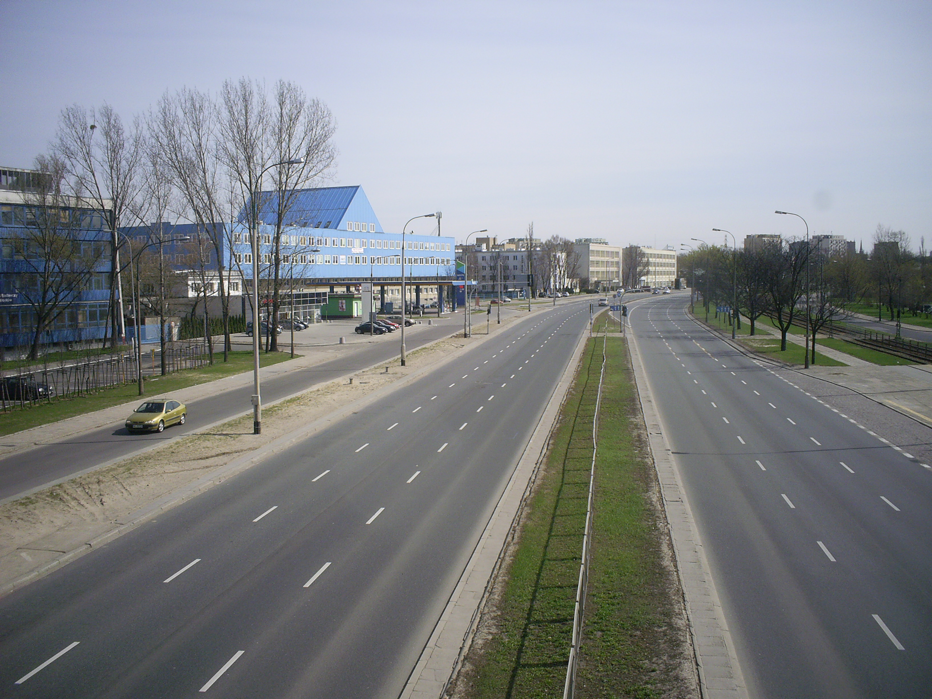 This image pictures Golendzinow skyline. It is a one of the regions in the Praga Polnoc district (Warsaw).